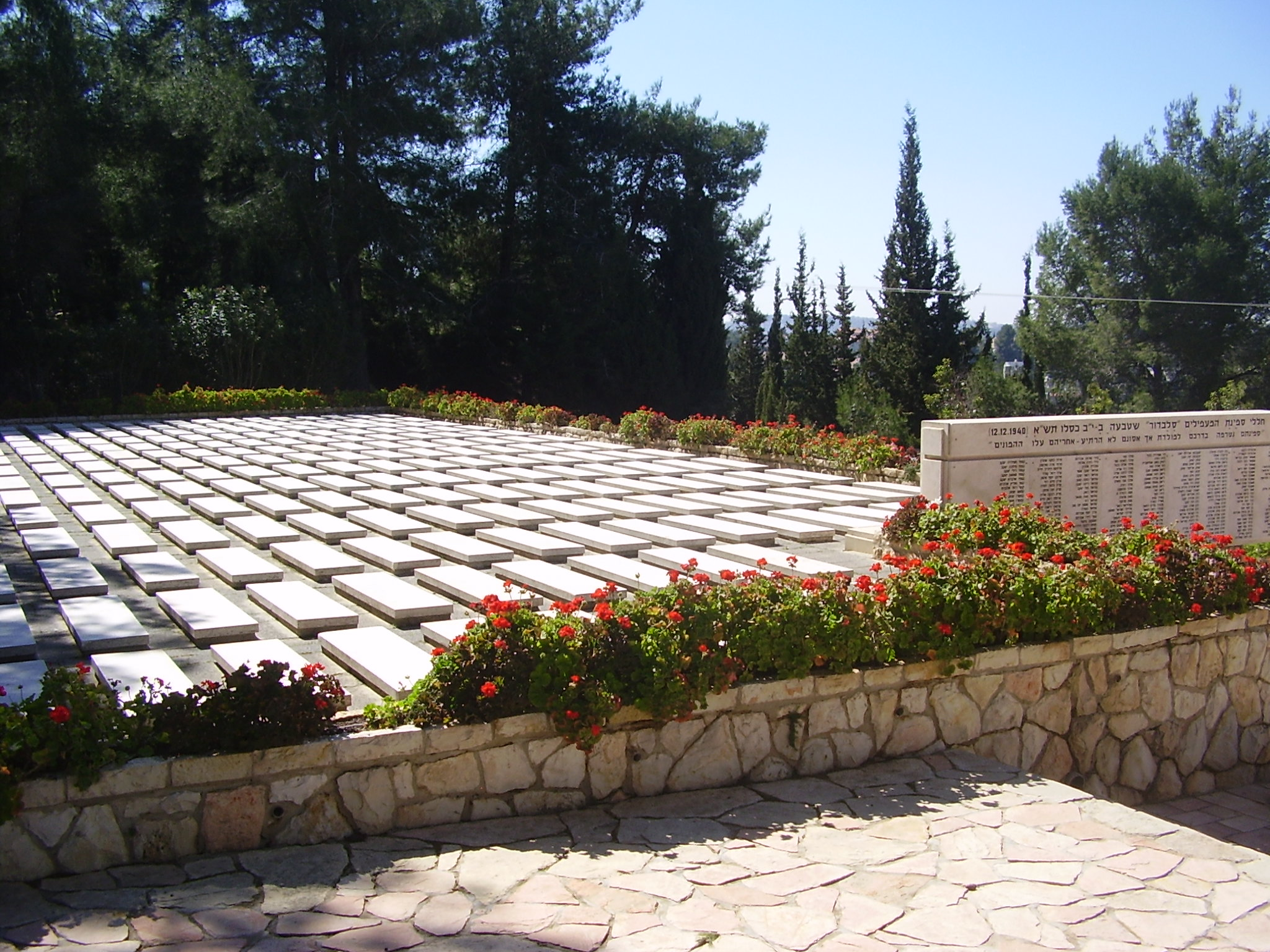 monument to the victims on immigrants ship salvador, on mount herzl